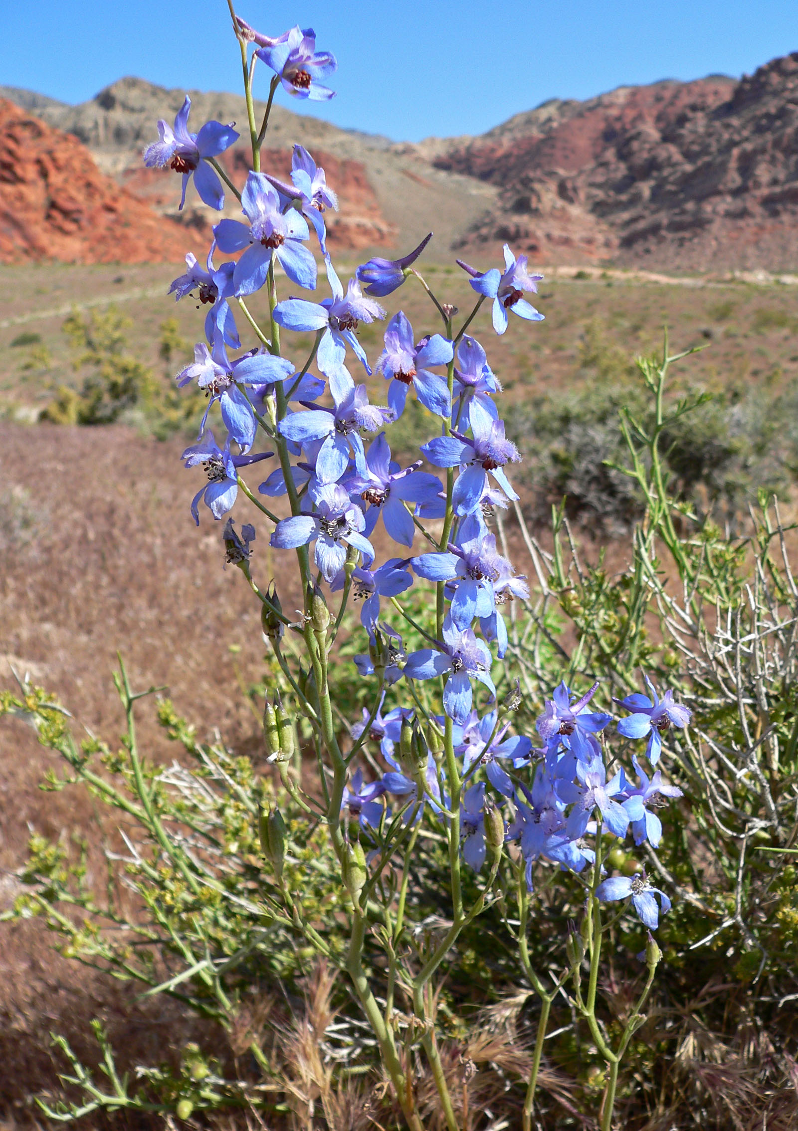 Photo of Delphinium parishii in Calico Basin west of Las Vegas, Nevada